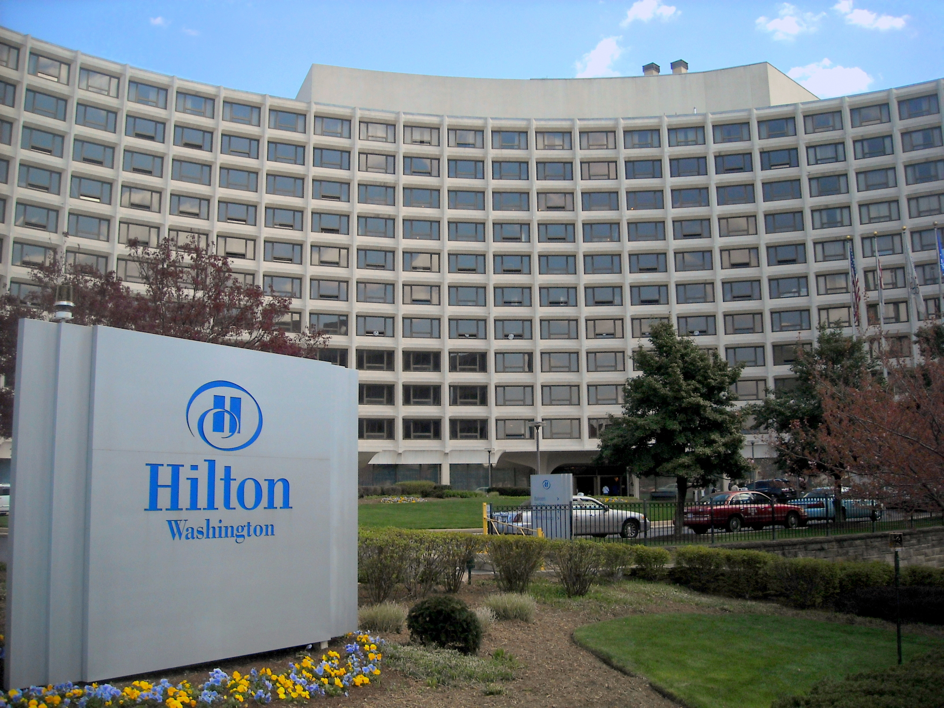 The Hilton Washington, site of the 1981 Reagan assassination attempt, located at 1919 Connecticut Avenue, N.W., in the Adams Morgan neighborhood of Washington, D.C. Designed by William B. Tabler and constructed between 1962–1965, the hotel is an example of brutalist architecture.